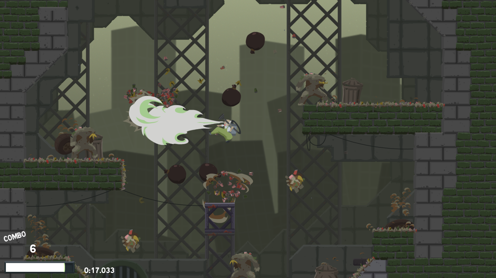 Dustforce screenshot. Released in 2012, the game was developed by Hitbox Team.